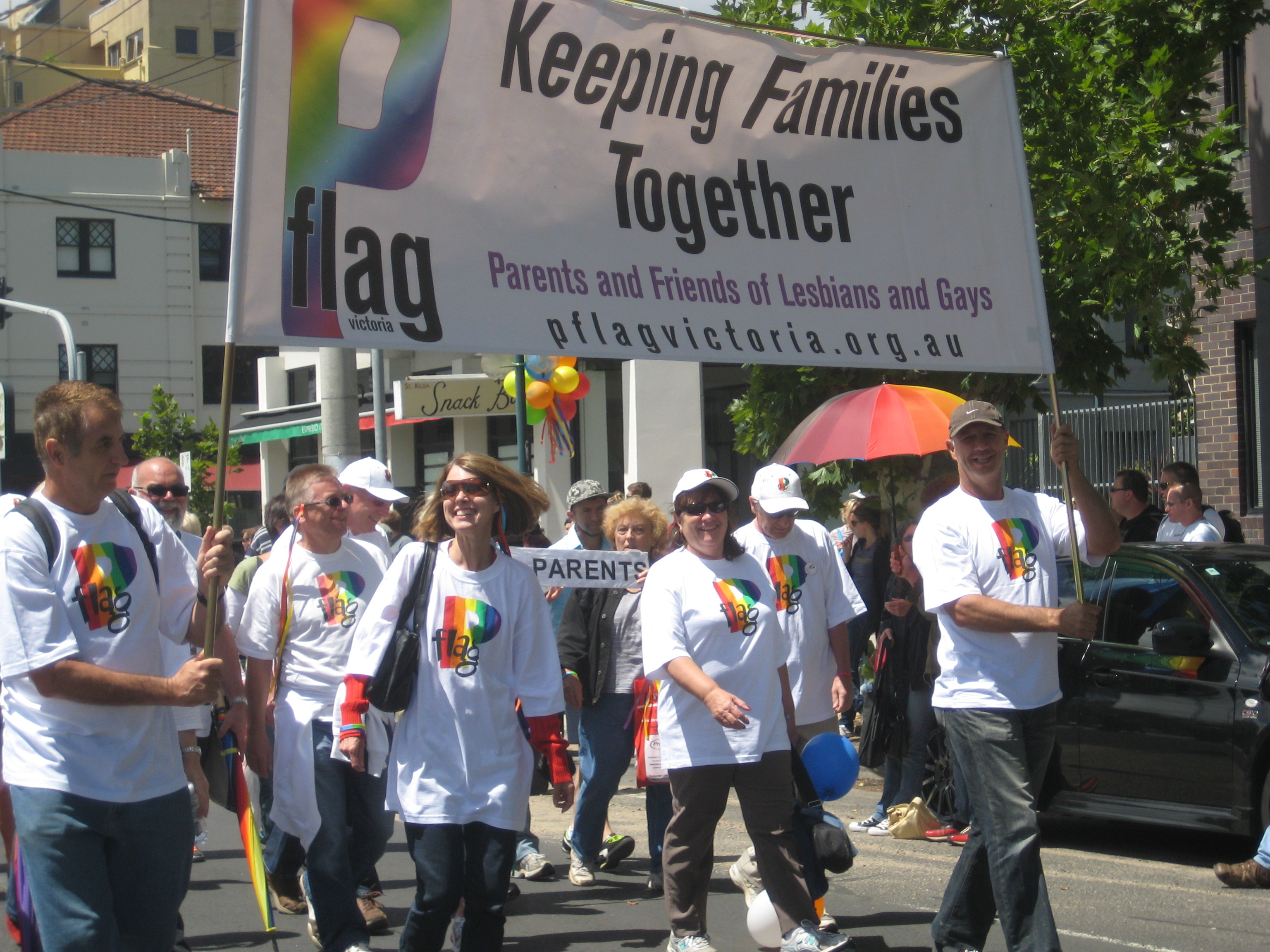 Members of PFLAG (Parents and Friends of Lesbians and Gays Victoria) marching at Melbourne Pride 2011 (Melbourne, Australia)